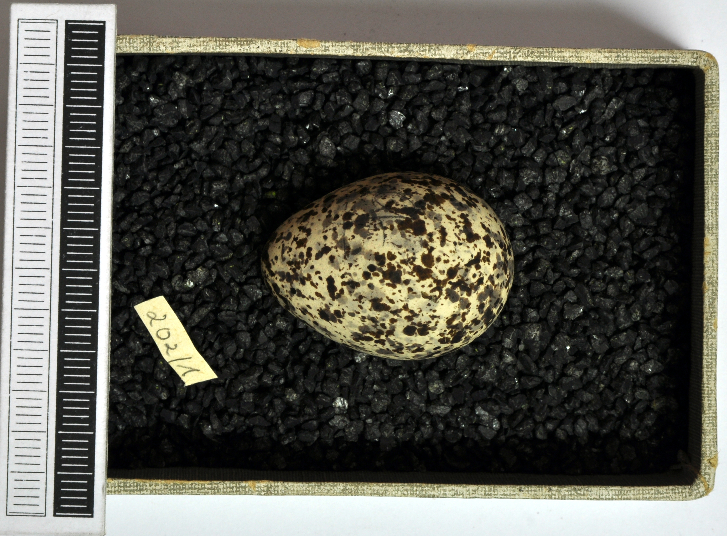 Collared pratincole Glareola pratincola, egg, Coll. Museum Wiesbaden, Origin: Karapinar, Turkey, 24.05.1972, leg. W. Abelmann